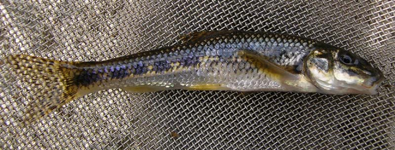 Gobio gobio Locality: CZ, Moravia, Olomouc - Černovír, Trusovický potok u soutoku s Moravou